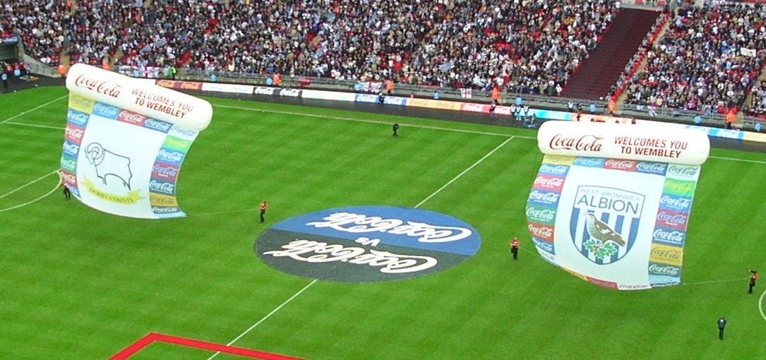 The crests of Derby County F.C. and West Bromwich Albion F.C., prior to the 2007 Football League Championship play-off final